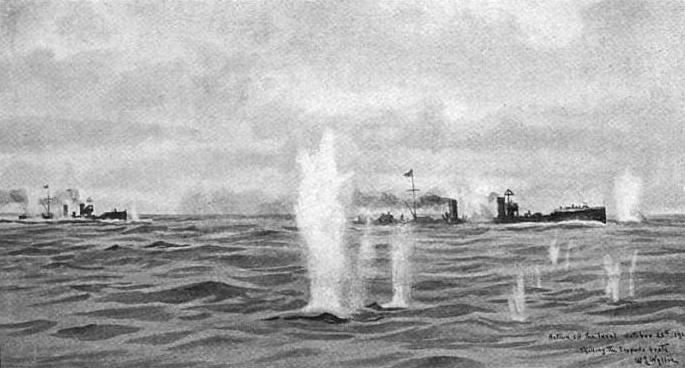 image of the battle off texel